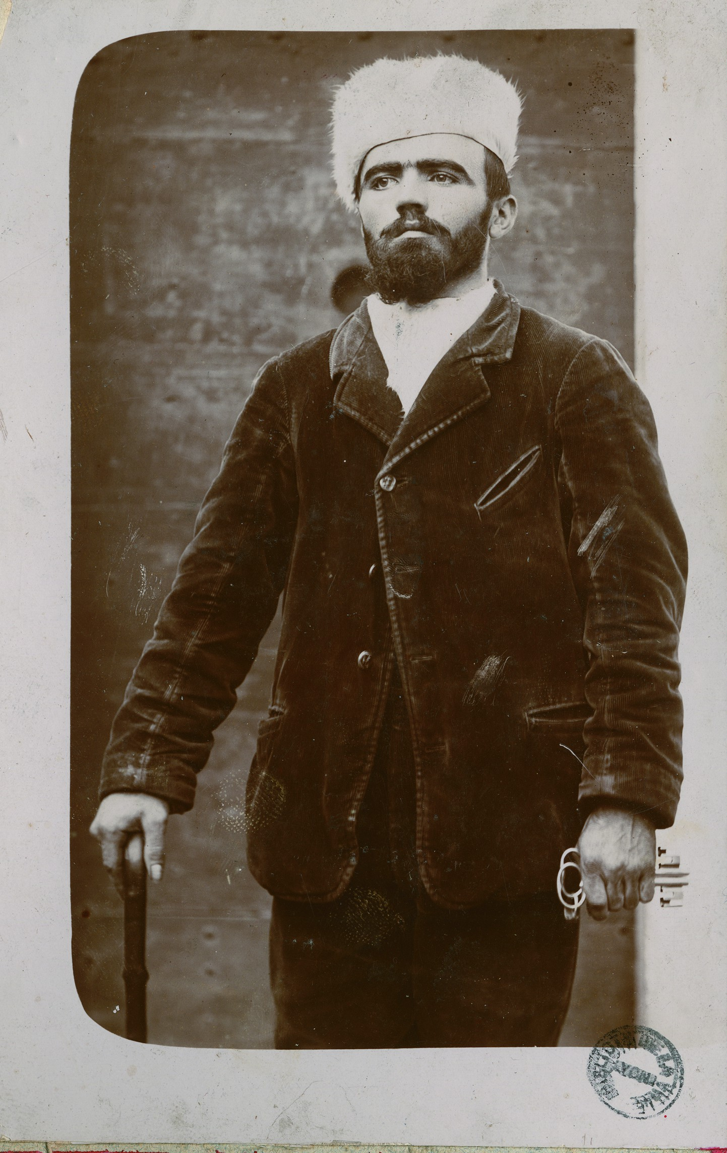 Joseph Vacher (1869-1898)